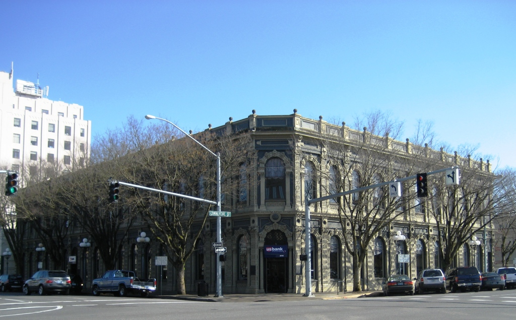 Ladd and Bush Bank building in Salem, Oregon